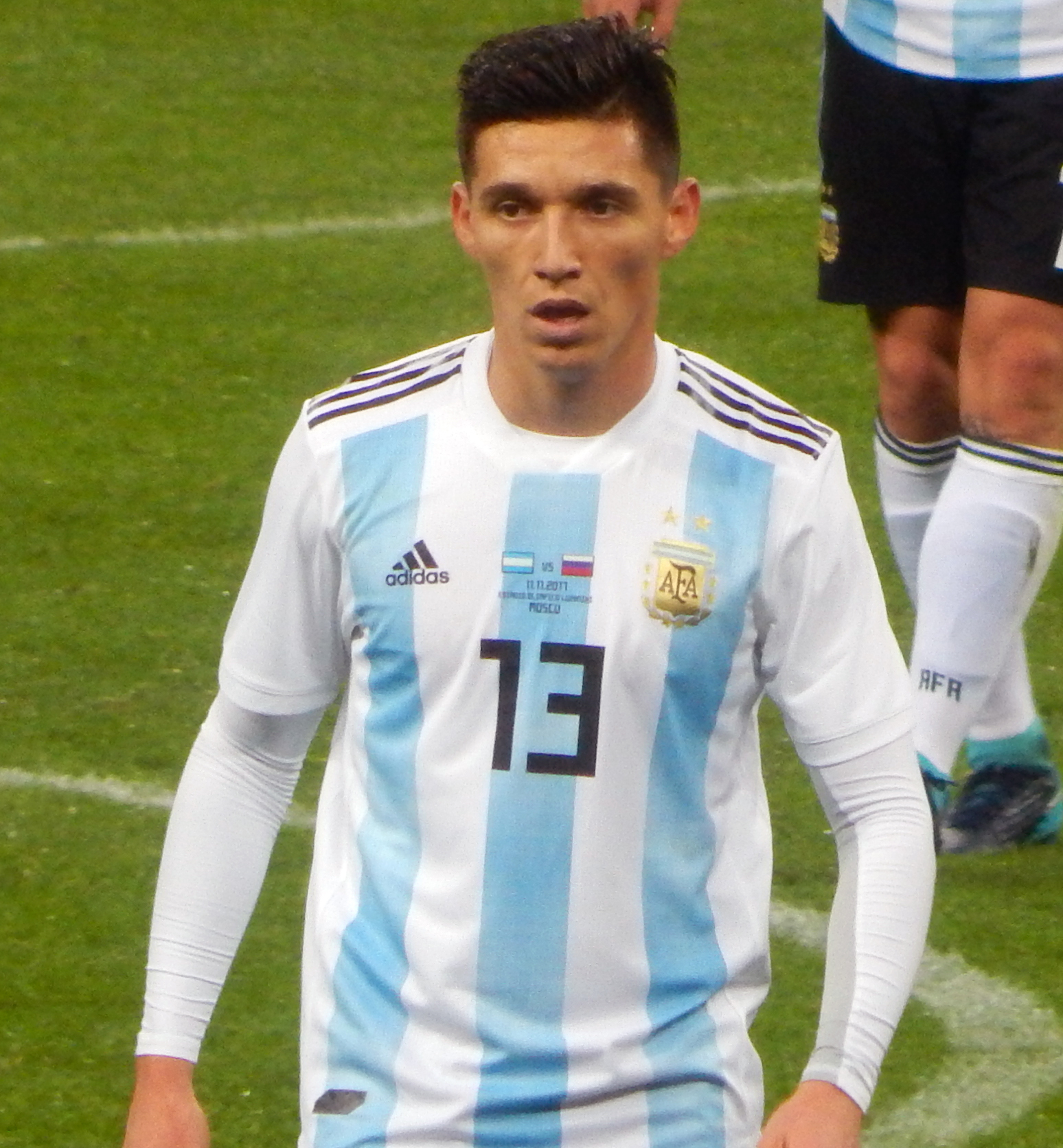 A friendly match between Russia and Argentina in Moscow, Luzhniki stadium, on November 11, 2017.